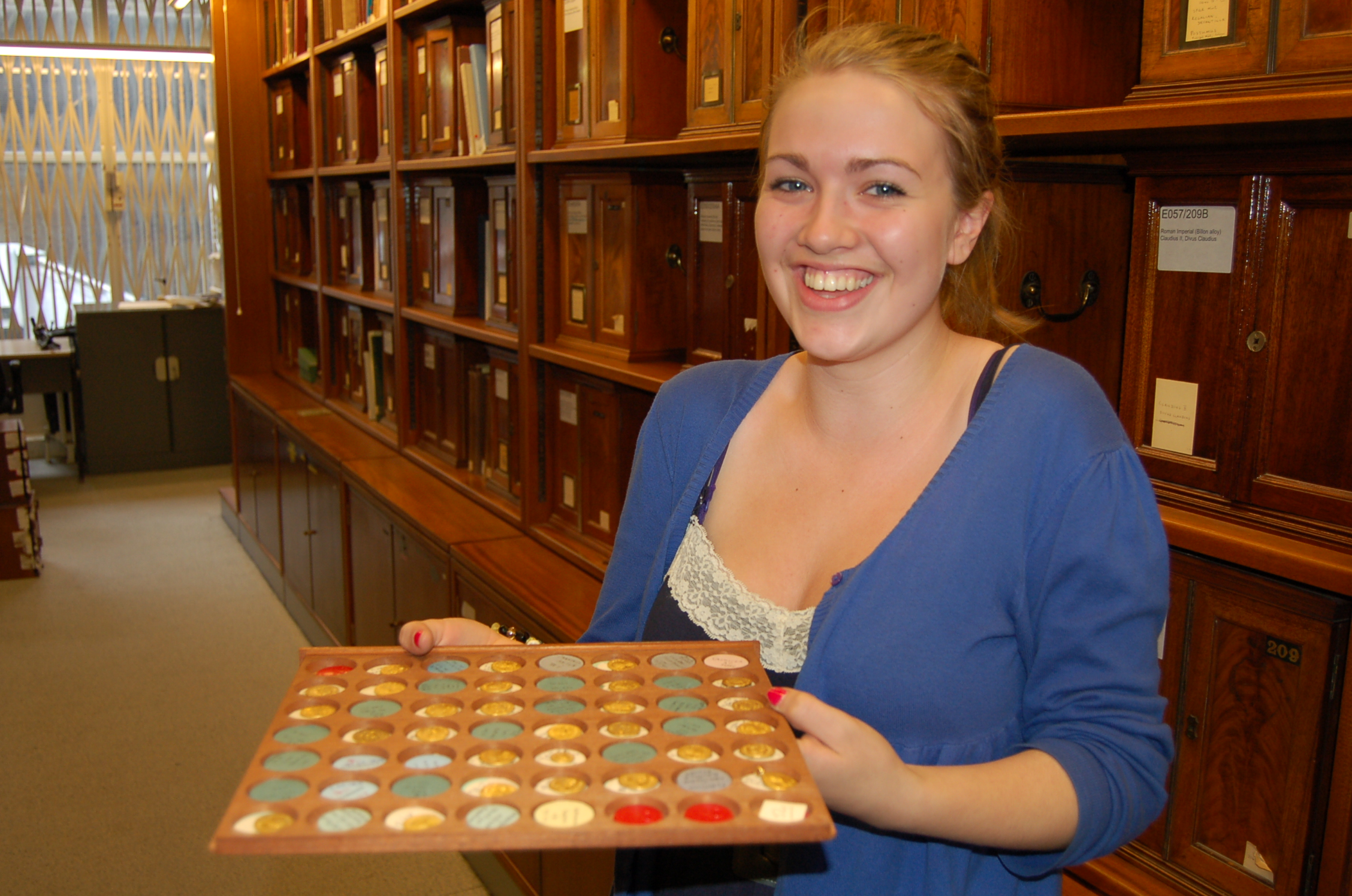 Ellie in the basement of Coins and Medals at the British Museum, learning about storage and handling of amazing gold coins.